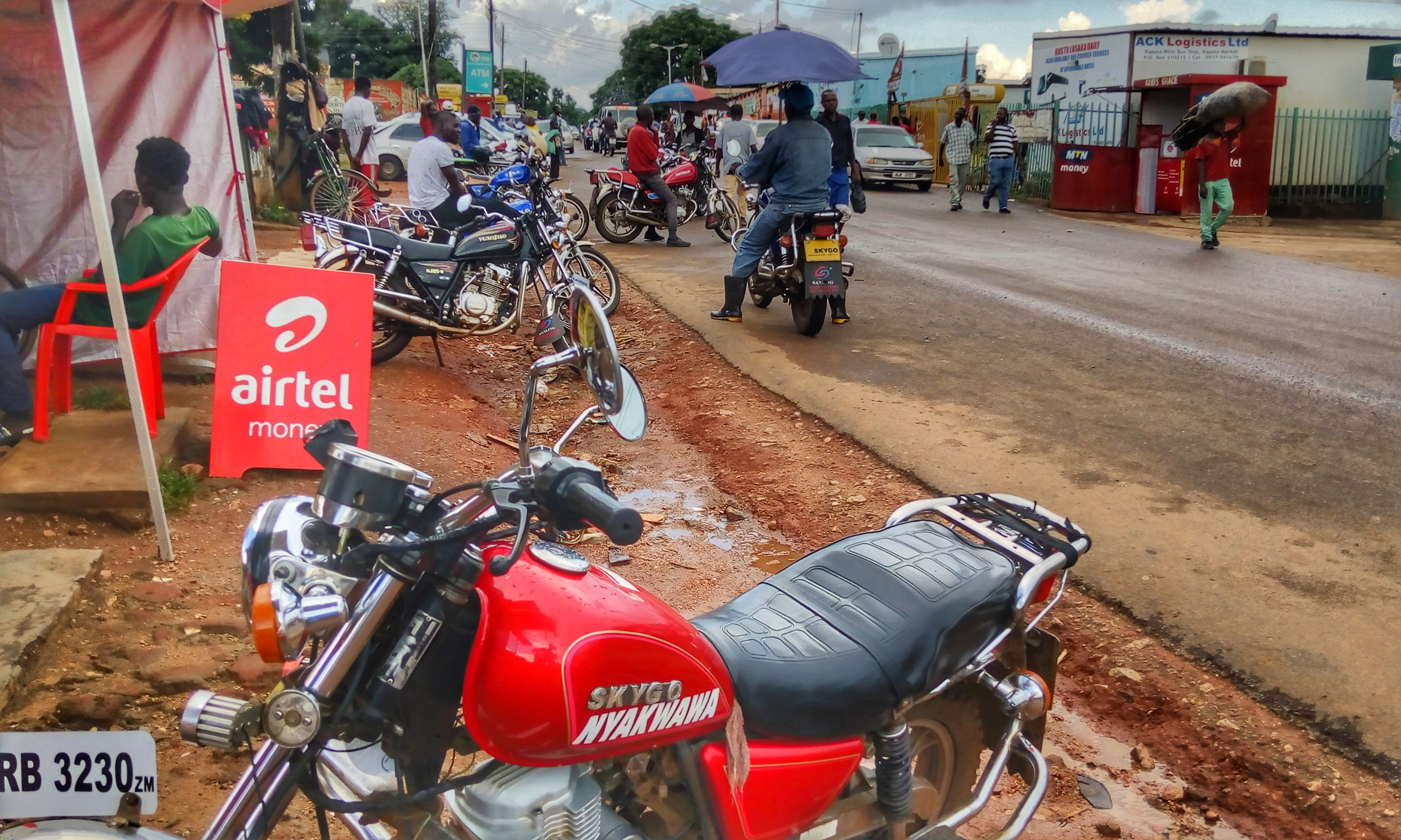 These are motorcycles in Zambia to be specific in Chipata City used as public transport from one place to the other locally This is an image with the theme "Africa on the Move or Transport" from: Zambia